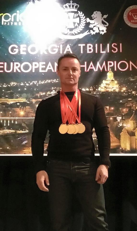 Erni Gregorčič after the medal ceramony at the 2015 European Championship in Tbilisi, Georgia